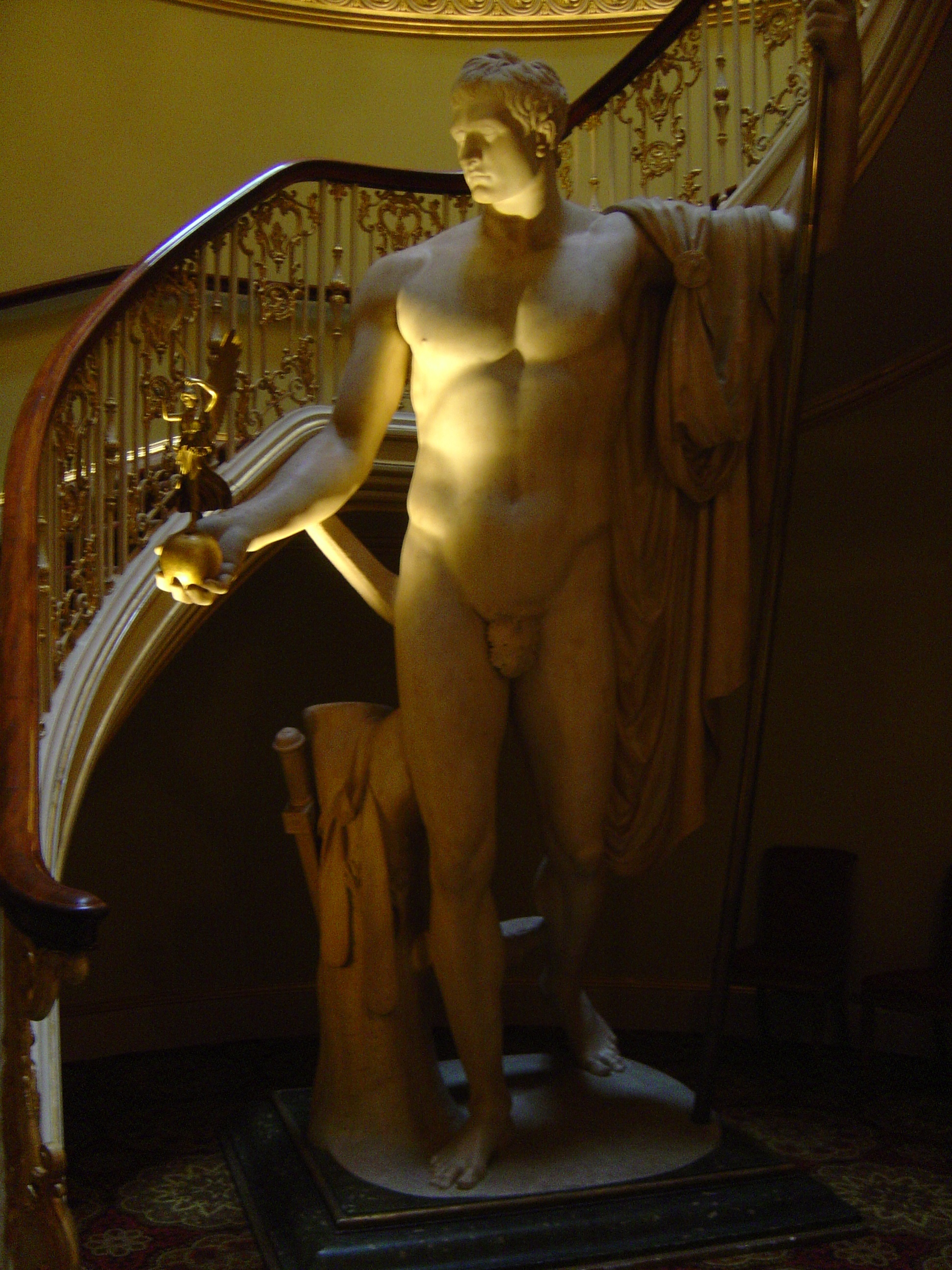 Antonio Canova (Italian, 1757-1822): Napoléon en Mars désarmé et pacificateur (Napoleon as Mars the Peacemaker), 1802/1806, nude marble statue, 325 cm, Apsley House, London. There is a bronze copy at the Accademia di Brera in Milan made in 1811 (Napoleon as Mars the Peacemaker). See: [1].